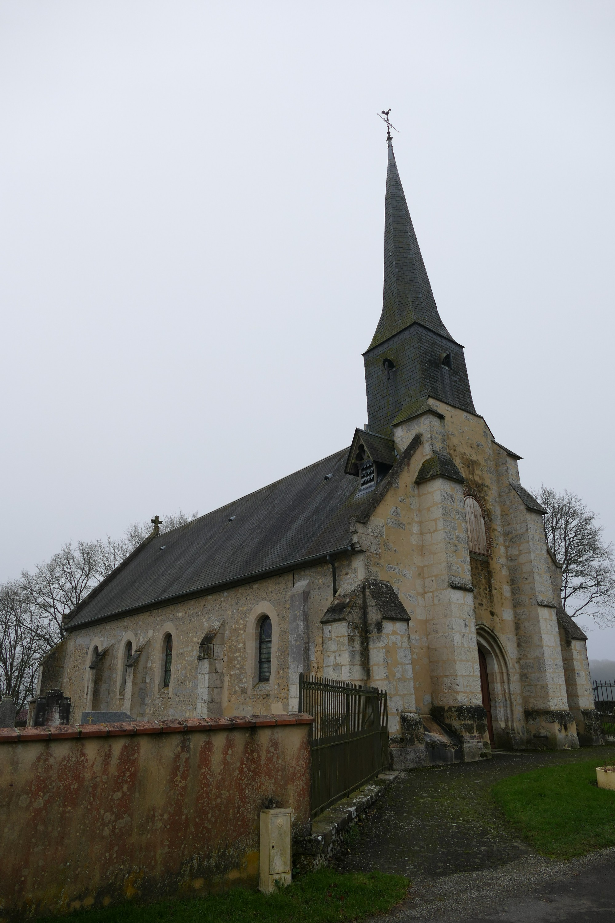 Saint-Quentin's church in Saint-Quentin-de-Blavou (Orne, Normandie, France).